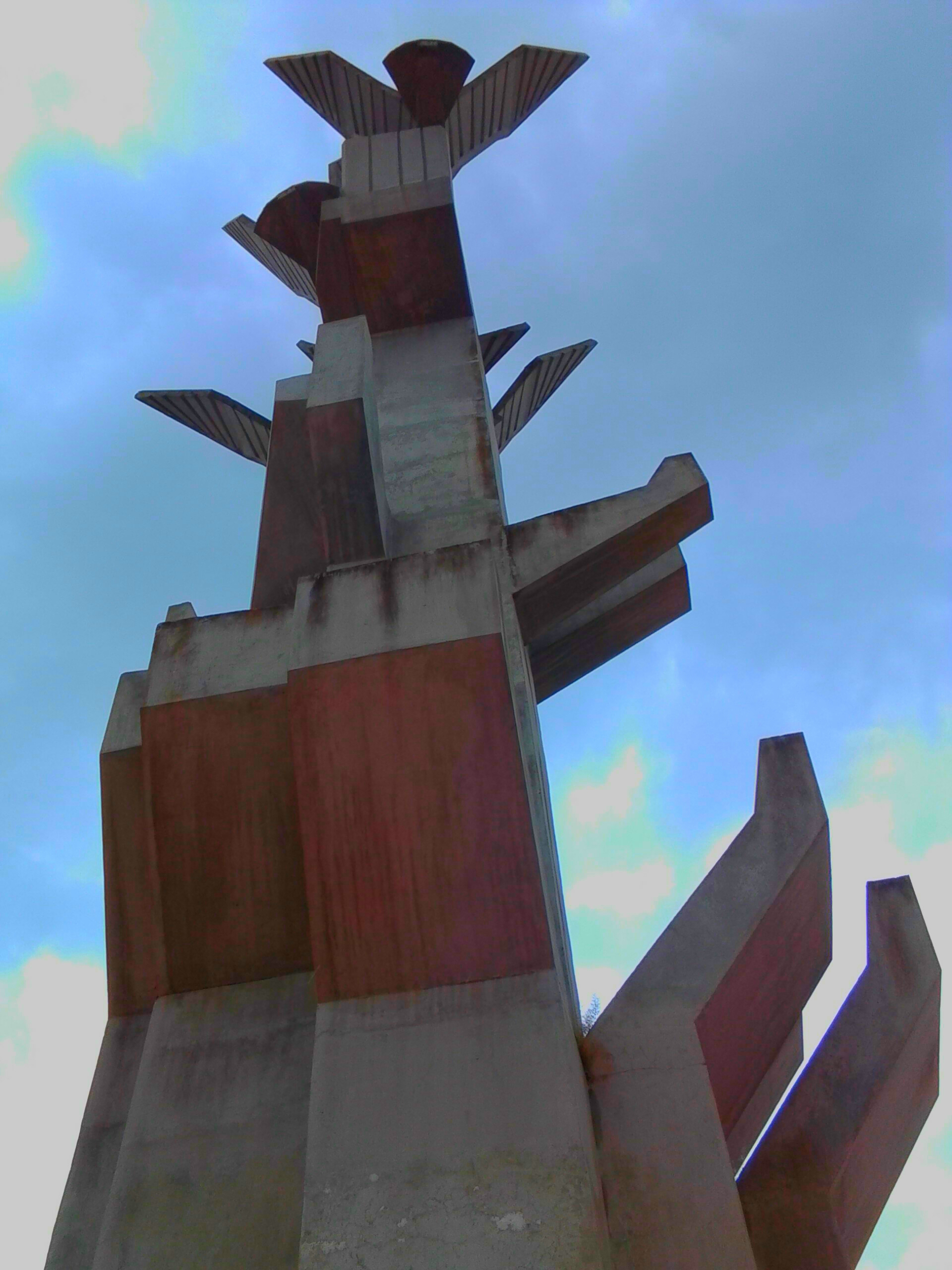 স্বাধীনতা চত্বর,পাবনা বিজ্ঞান ও প্রযুক্তি বিশ্ববিদ্যালয়